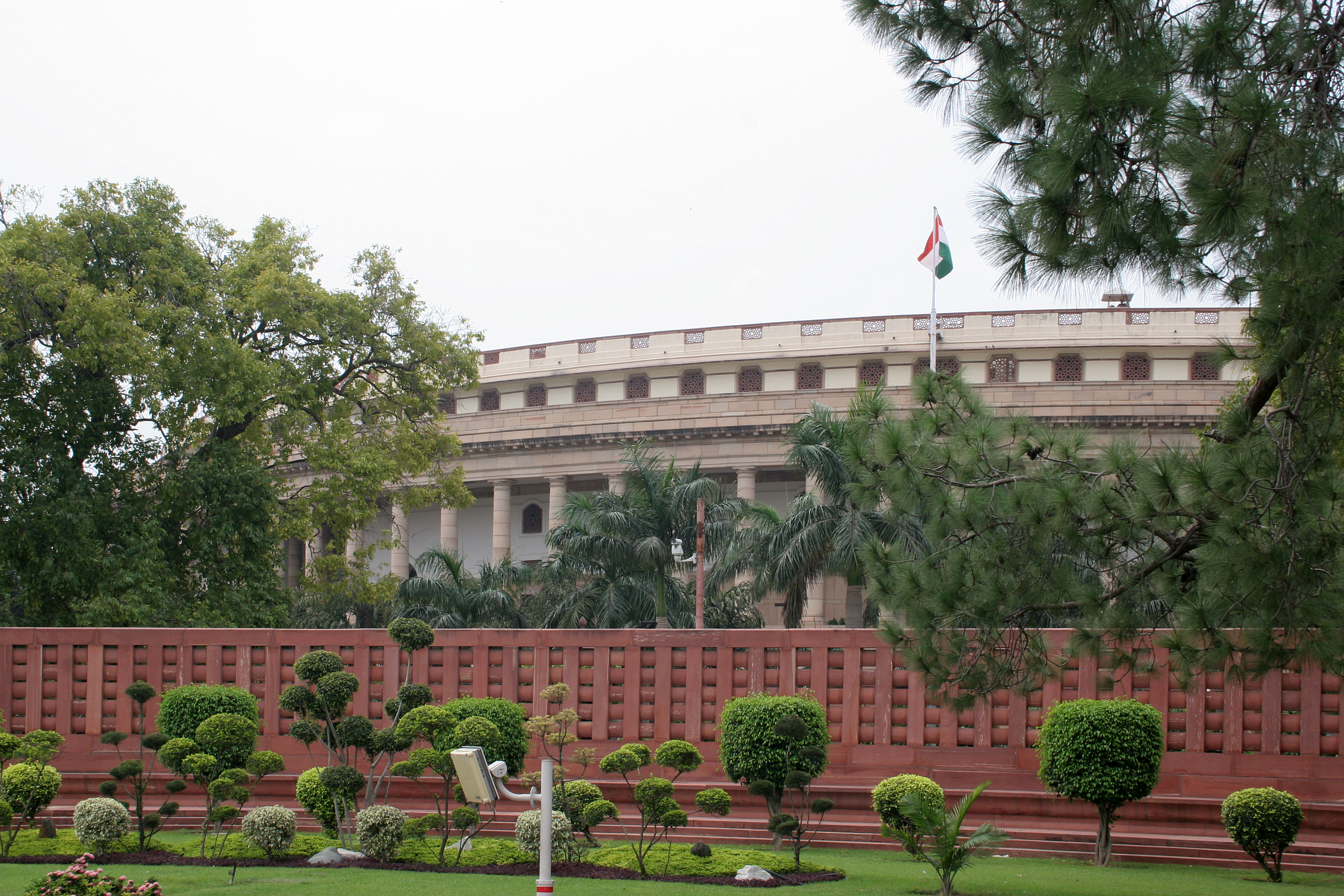 Sansad Bhavan, parliament building of India.